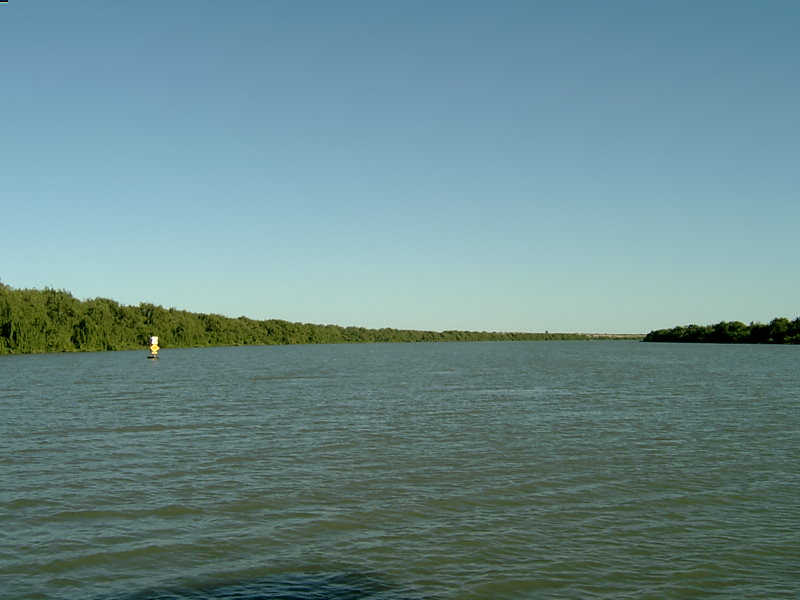 Wellington Murray River Ferry Crossing, looking south